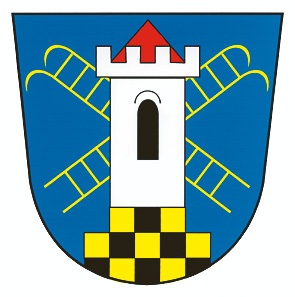 Municipal coat of arms of Kunětice village, Pardubice District, Czech Republic.